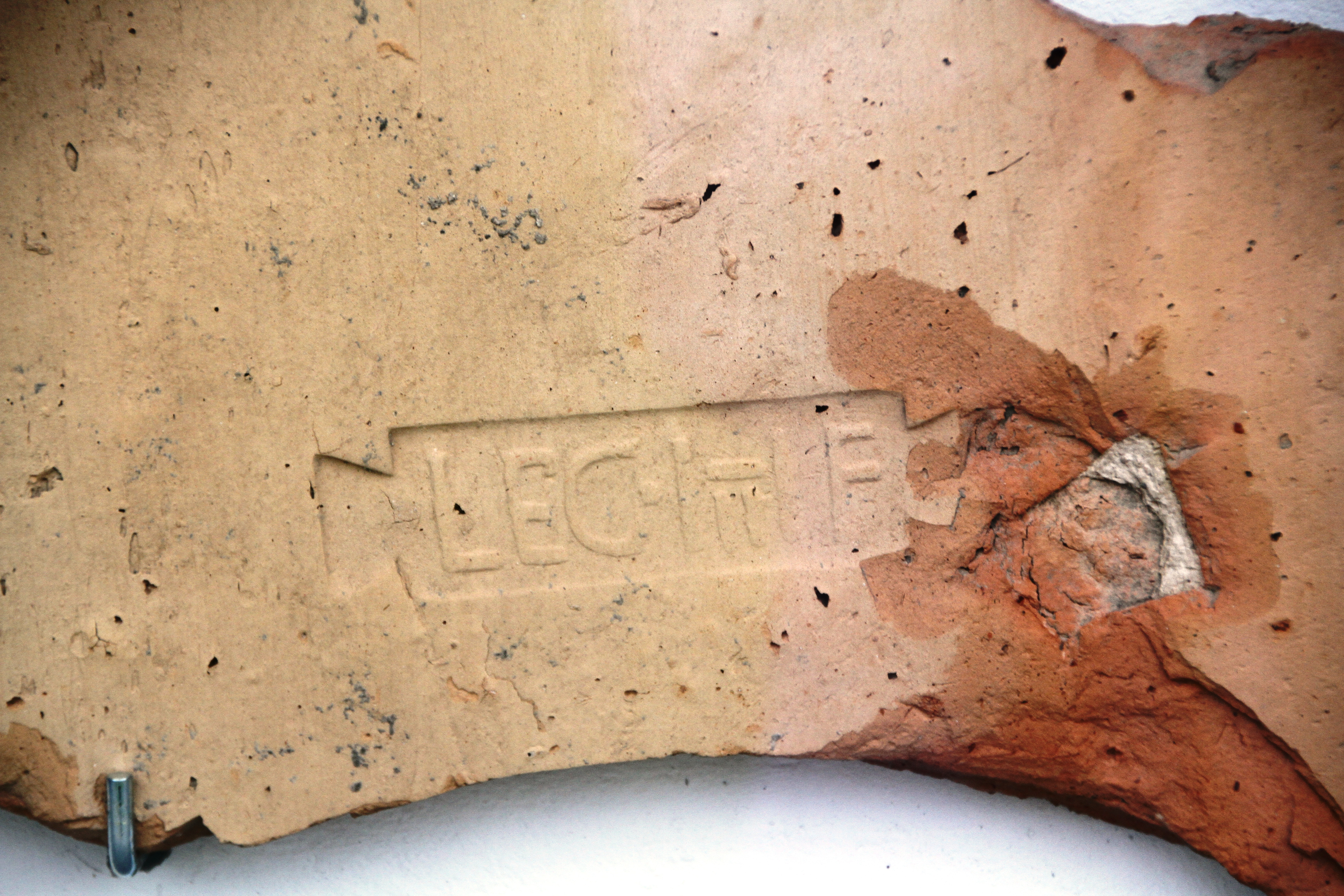 Ancient Roman brick from military workshop in Aquincum (Hungary), With stamp of military unit. 12.century AD.